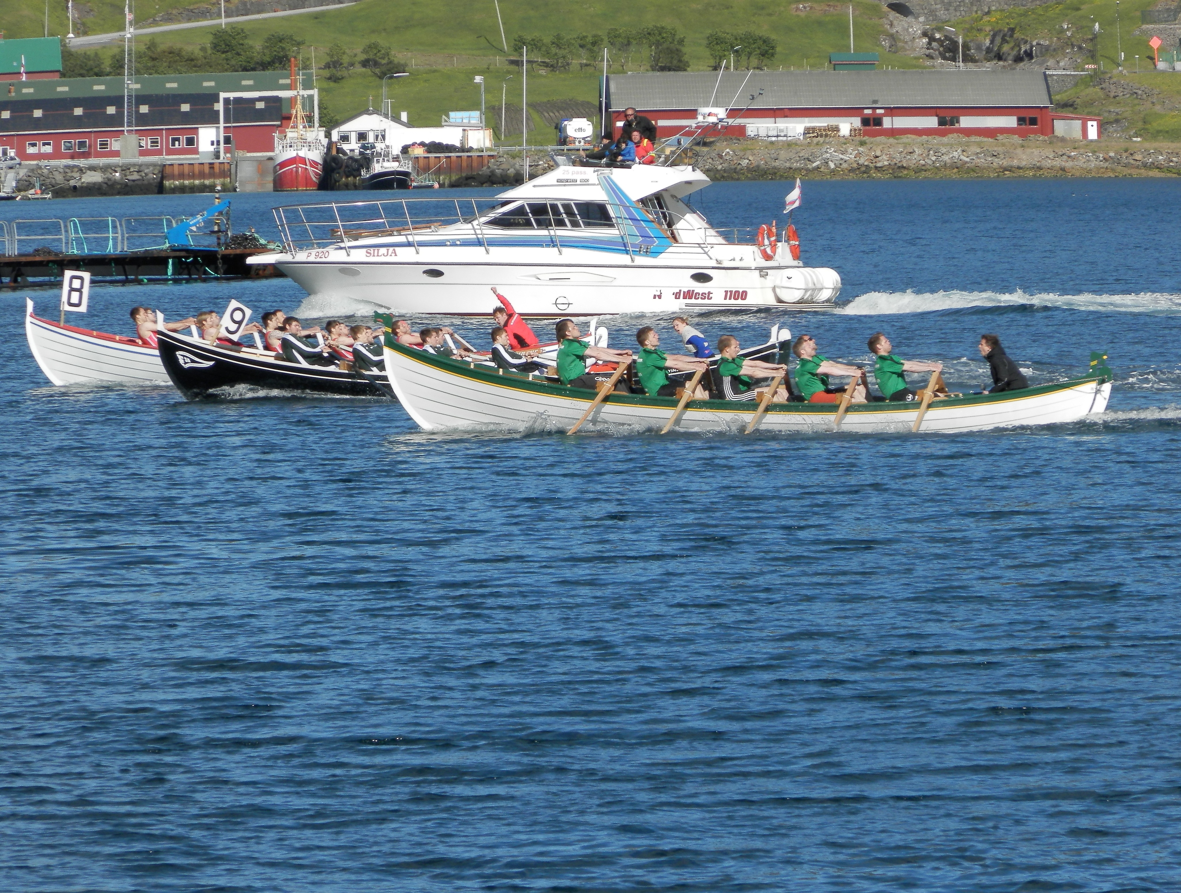 Fjarðastevna Rowing Cup 2012 in Vestmanna, Faroe Islands. This was the last race on Fjarðastevna, the largest Faroese boat types, which are used for rowing competitions, called in Faroese 10-mannafør. They were rowing 1000 meters here, when the fjord or bay is long enough they row a 2000 meter distance. 1. Klaksvíkingur 04:40.17 2. Suðuroyingur 04:41.14 3. Vestmenningur 04:42.22 4. Nólsoyingurin 04:54.24 5. Vestmannabáturin 05:03.05 Unknown